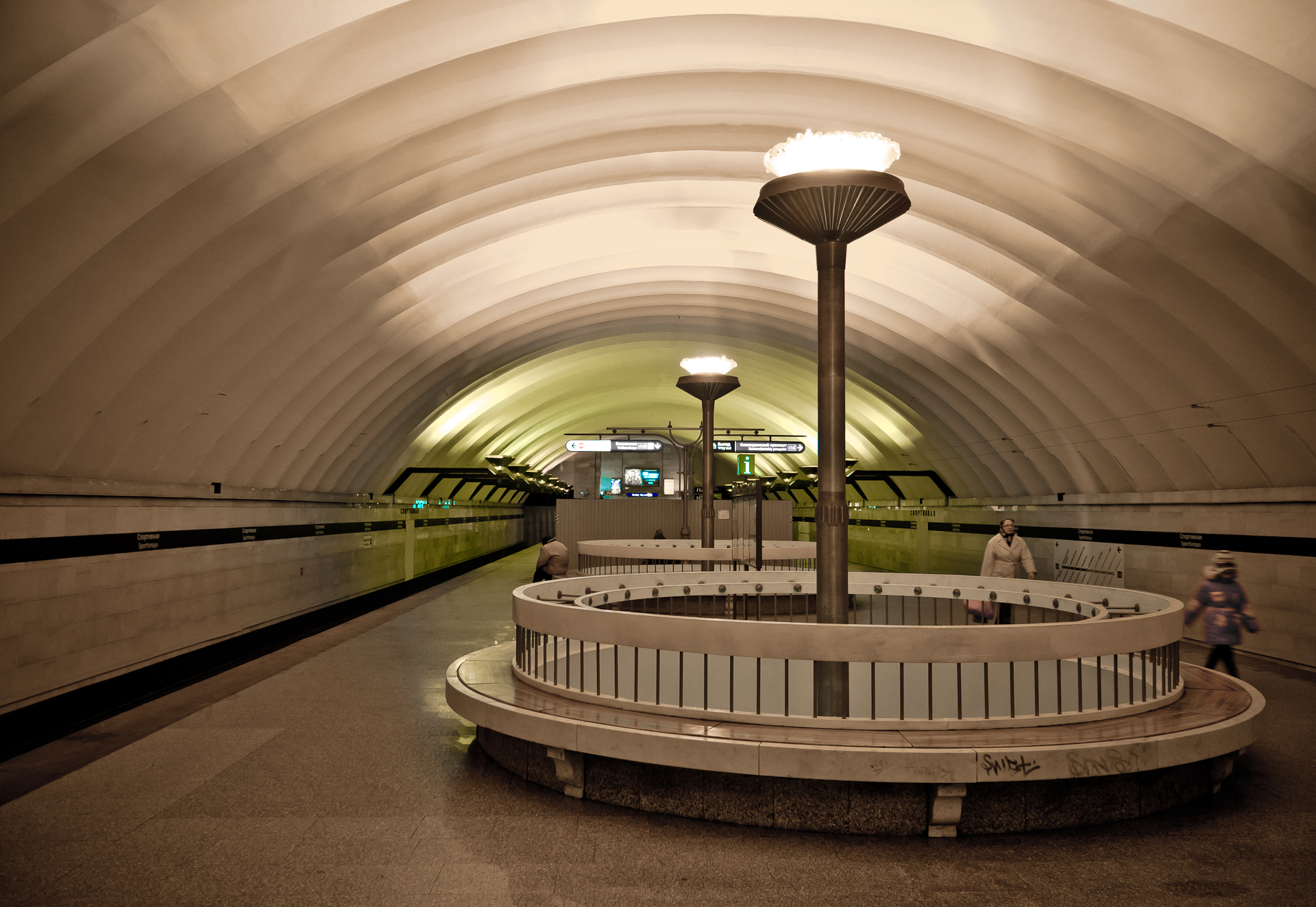 Sportivnaya subway station in Saint Petersburg, 2011